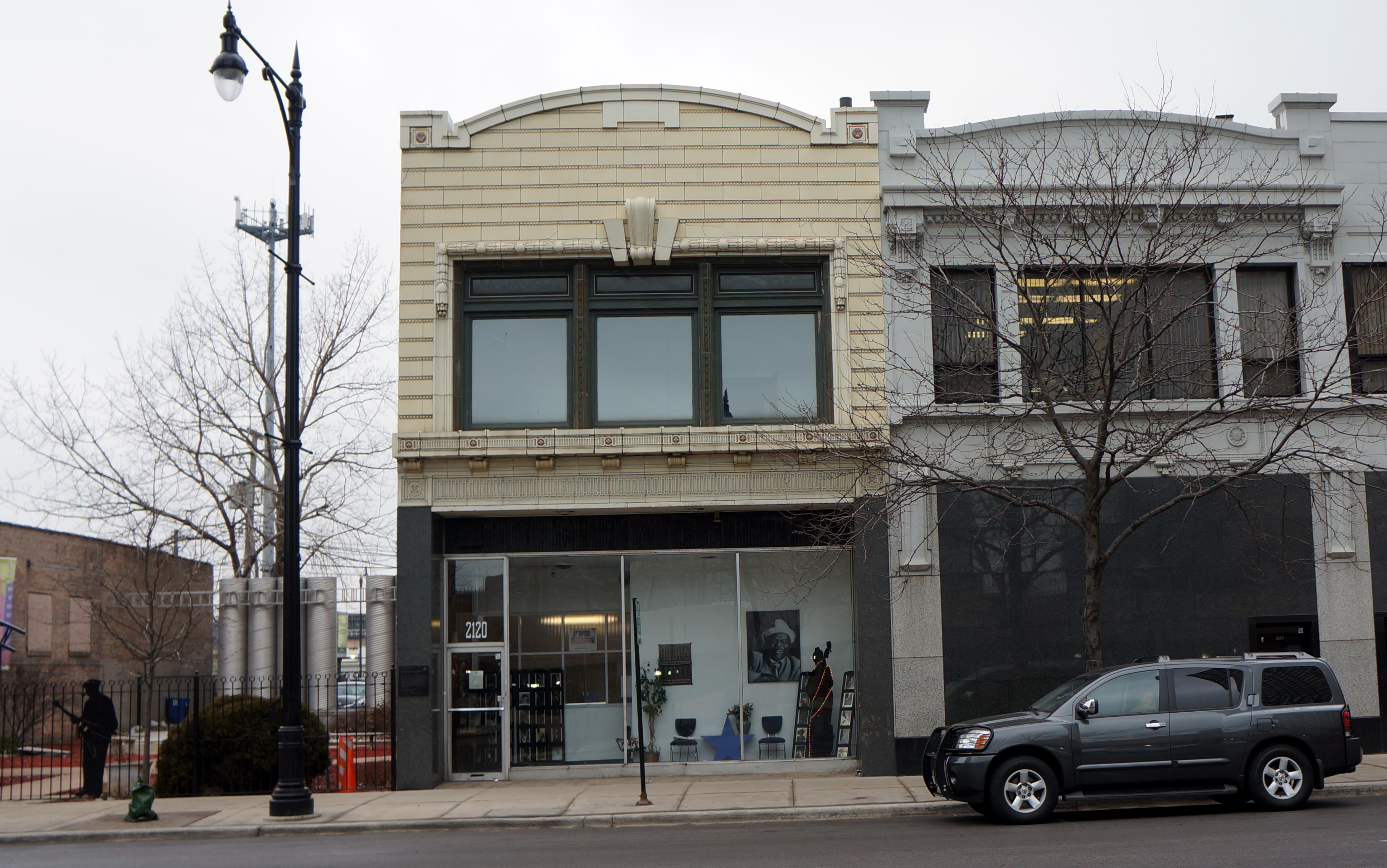 Chess Records Studios, 2012